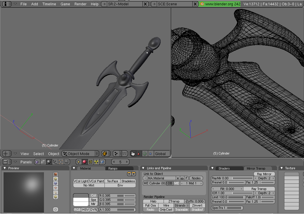 A screenshot of Blender 2.42. Taken by FredrikS.